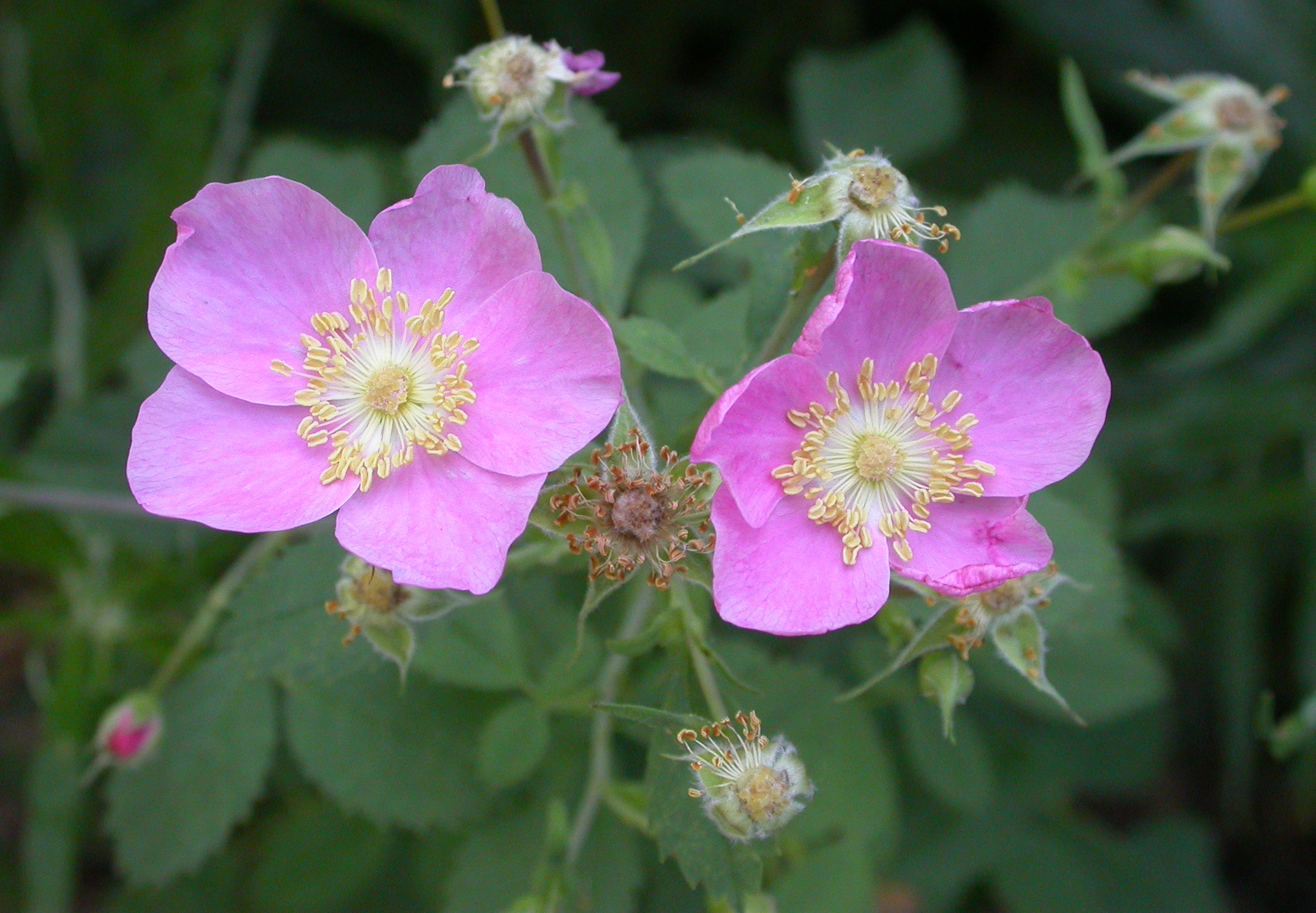 Photographed at BioTrek, Pomona, CA.